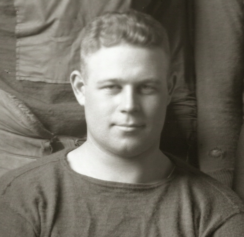 Photograph of Fred Rehor